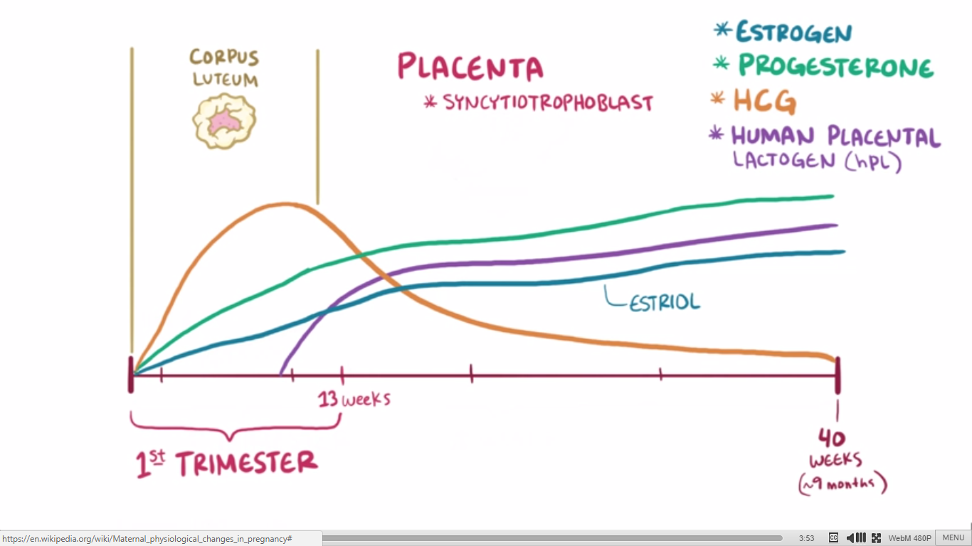 Graph of the levels of estrogen, progesterone, beta-hcg throughout pregnancy